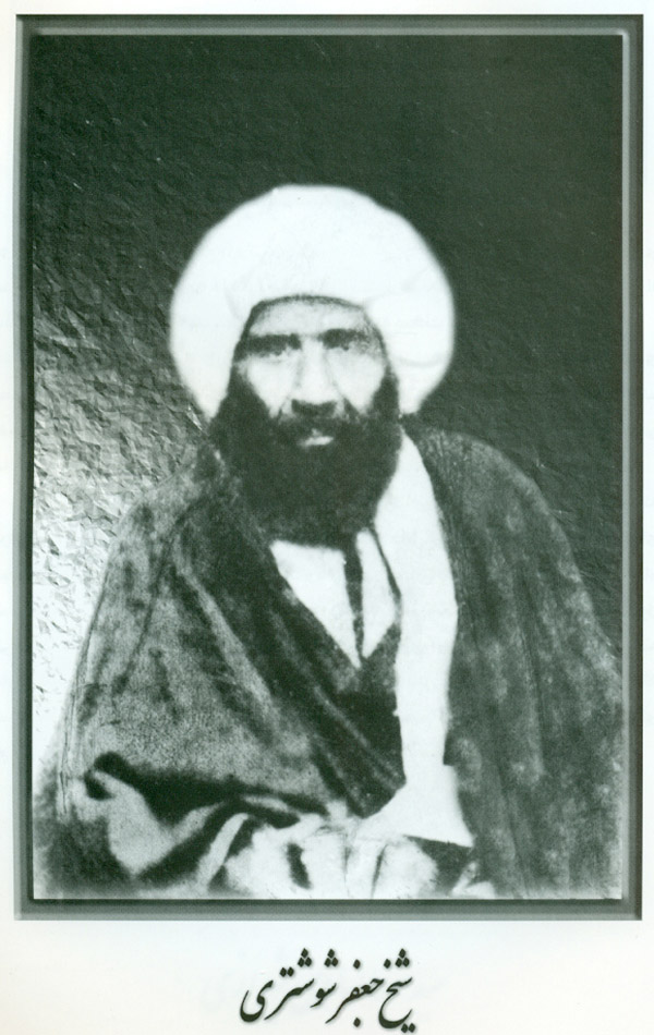 تصویر مرحوم شیخ جعفر شوشتری